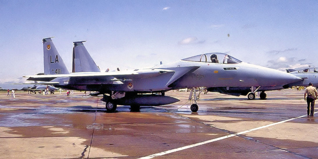 555th Tactical Fighter Training Squadron McDonnell Douglas F-15A-11-MC Eagle 74-0111, arrival at Luke AFB, November 1974. First production F-15A arrival for training. This aircraft was retired to AMARC as FH0005 Aug 2, 1991. Still on AMARC inventory Jan 15, 2008